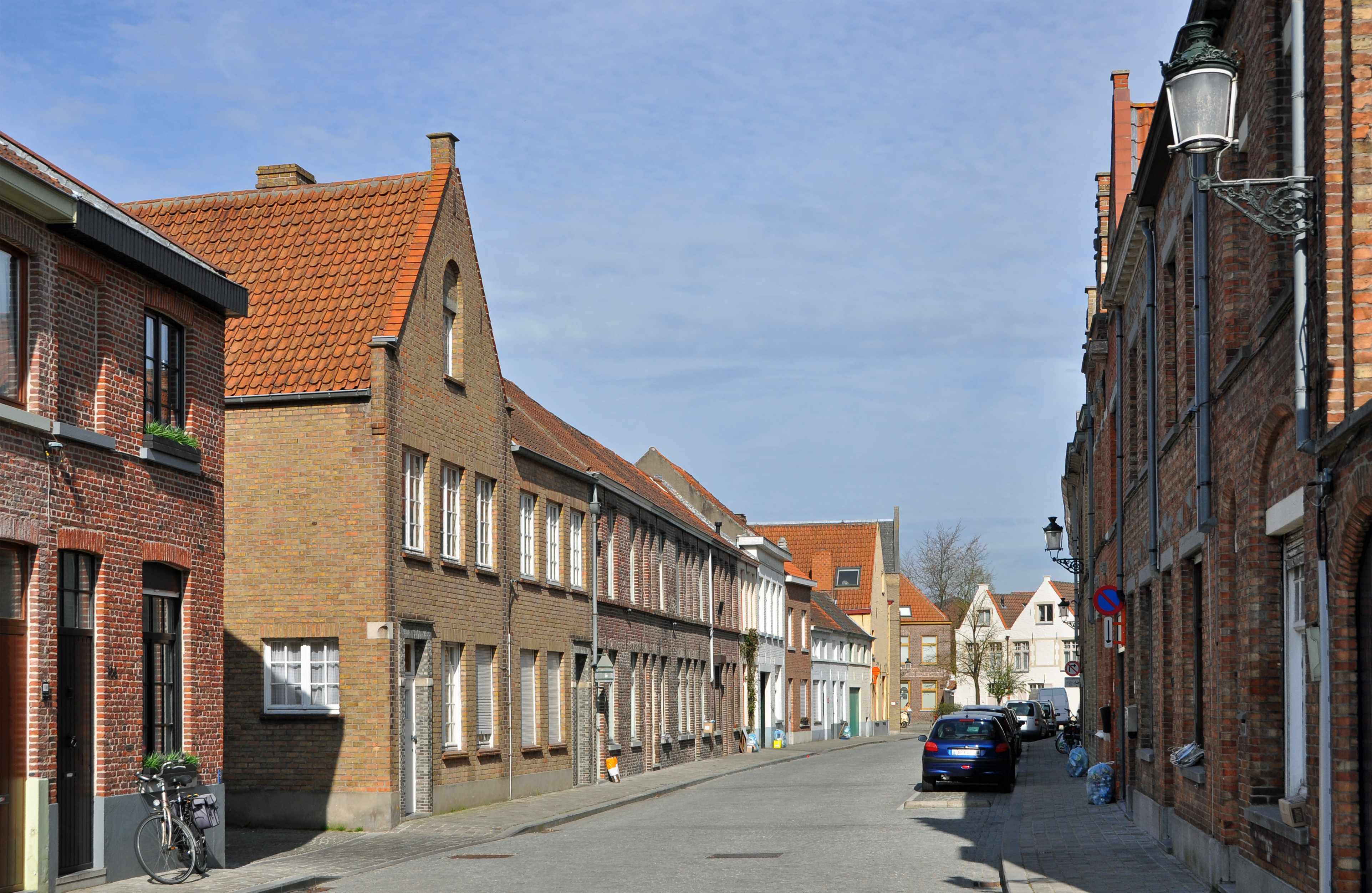 Bruges (Belgium): Ganzenstraat